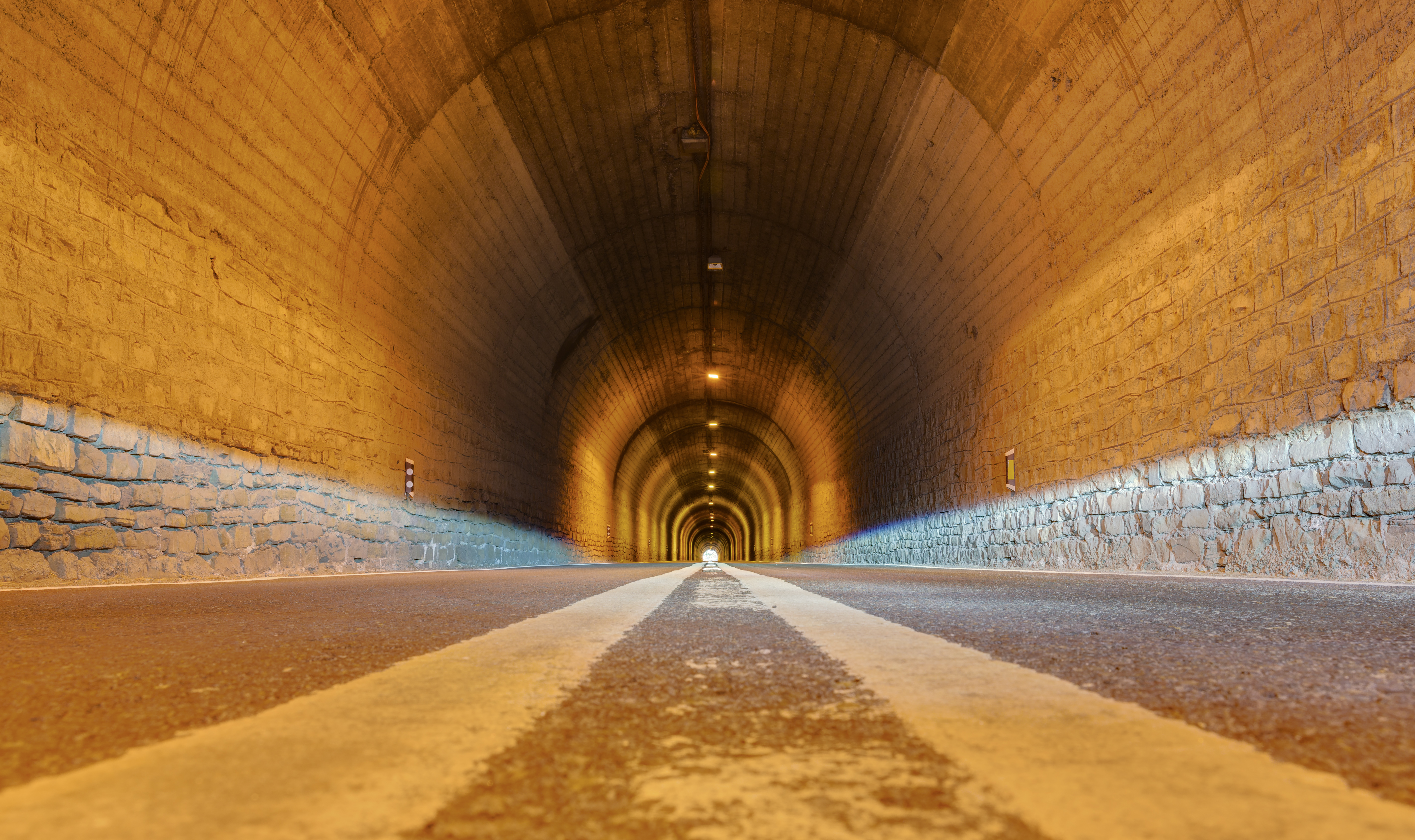 The tunnel of Cotefablo is a public traffic tunnel located between Broto and Biescas, in Aragon, not far from the Pyrenees, Spain. The tunnel is 683 m long and was constructed in 1935. It was the scenario of a famous tragic accident during the 1989 Vuelta a España, causing that the brilliant 30-year-old german cyclist, Reimund Dietzen, retired from active sport due to the crash.